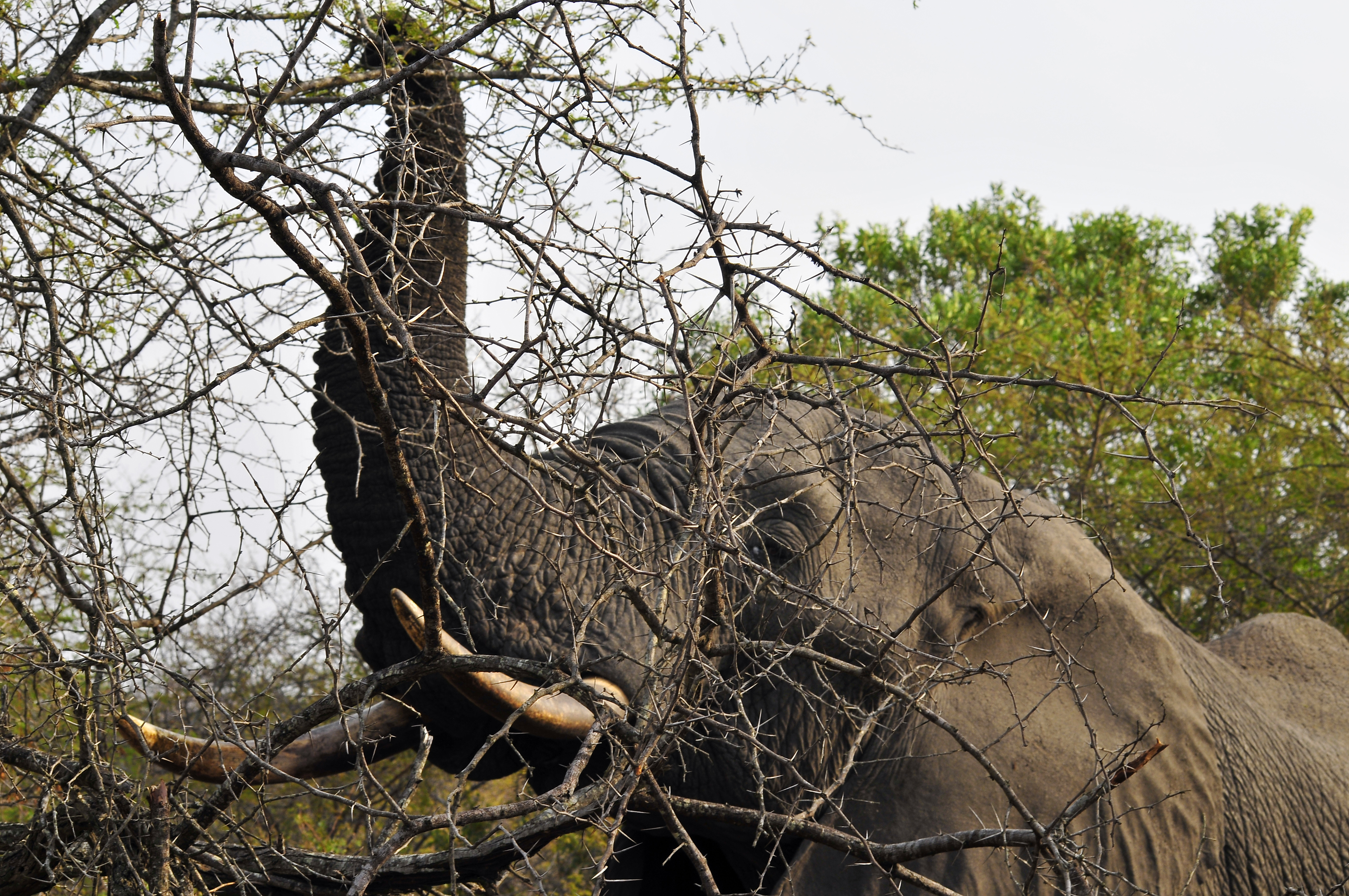 Elephant grazing in the Kruger National Park, South Africa